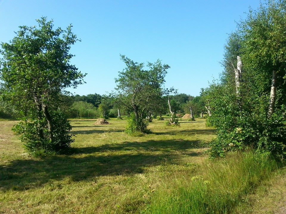 Lehdesniitty-type pasture vegetation on Jungfruskär islands, Houtskär, Parainen, Finland